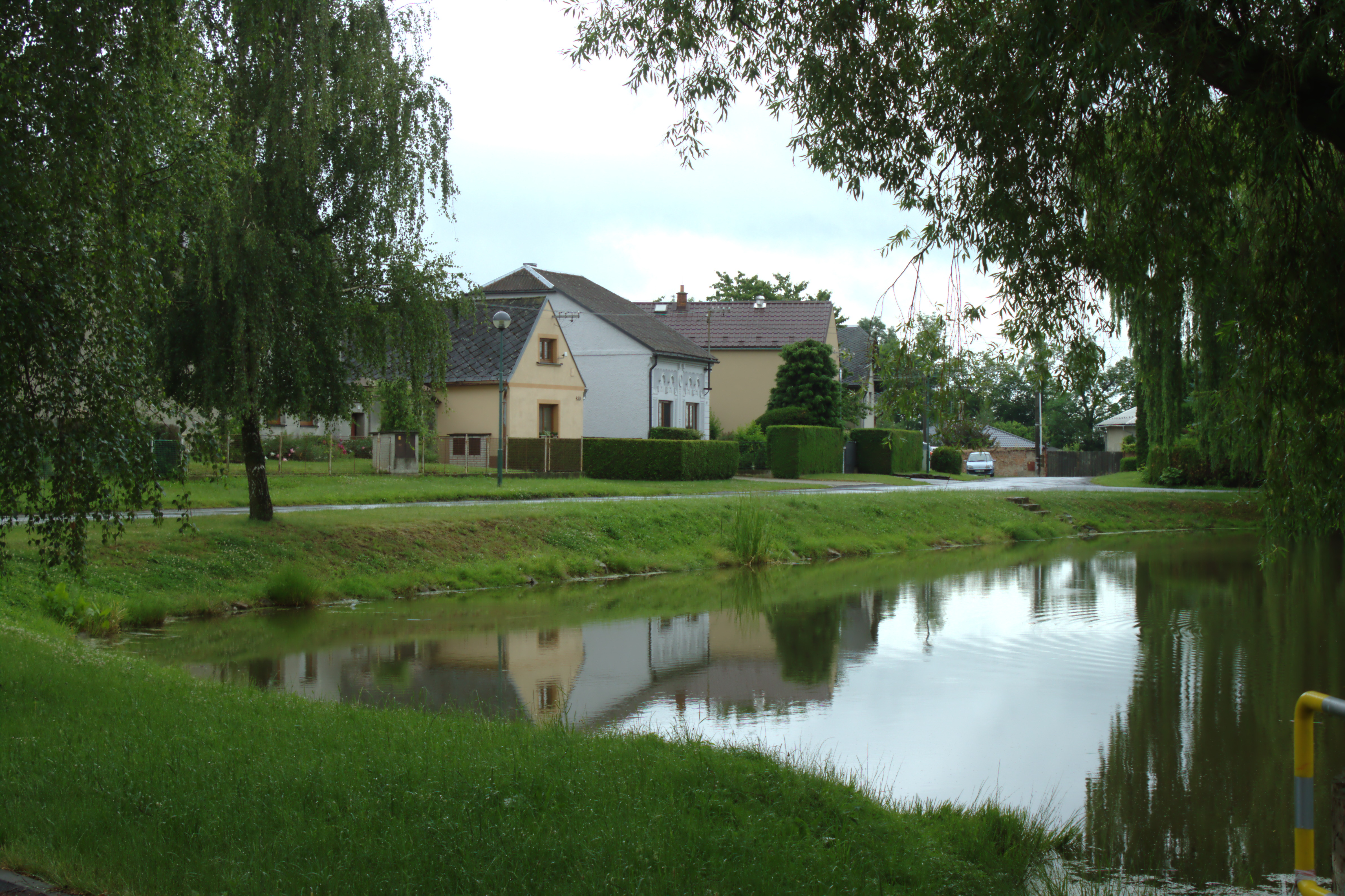 A pond in the central part of the village of Rybníček, Olomouc Region, CZ